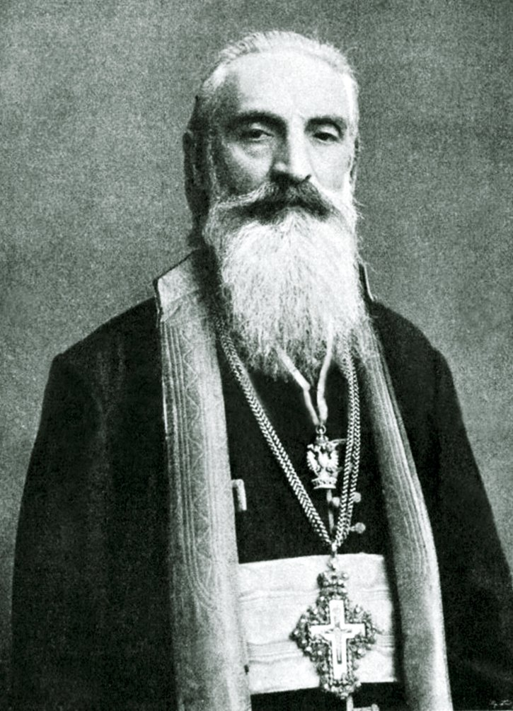 Portrait of Vladimir de Repta (1841-1926), captioned in German as Wladimir von Repta, Romanian Orthodox bishop.